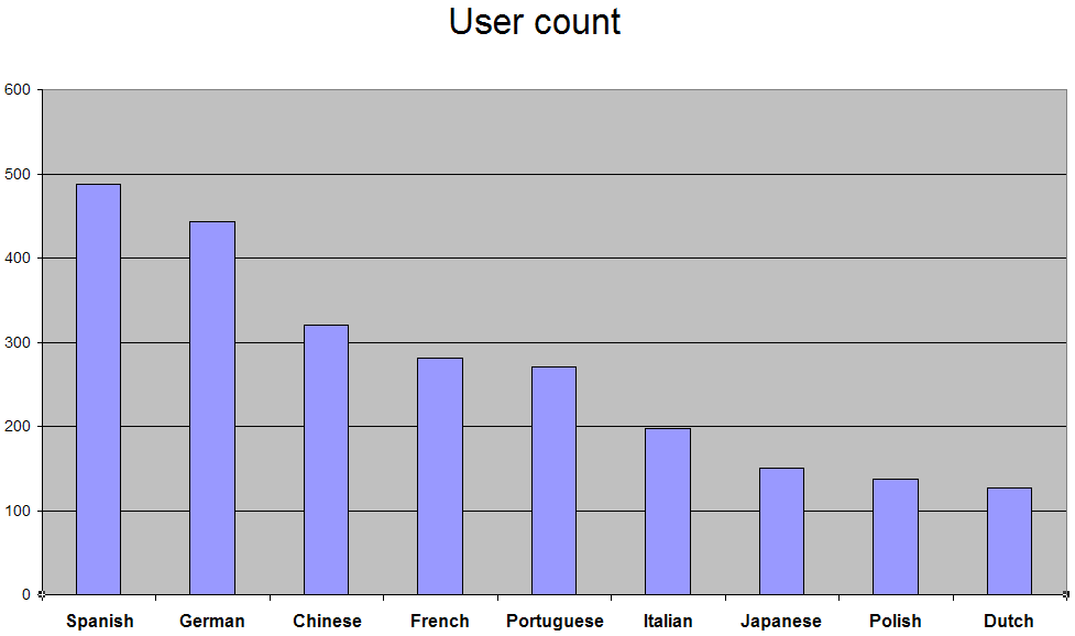 Comparison of the biggest non-English Wikipedia (by number of user accounts)